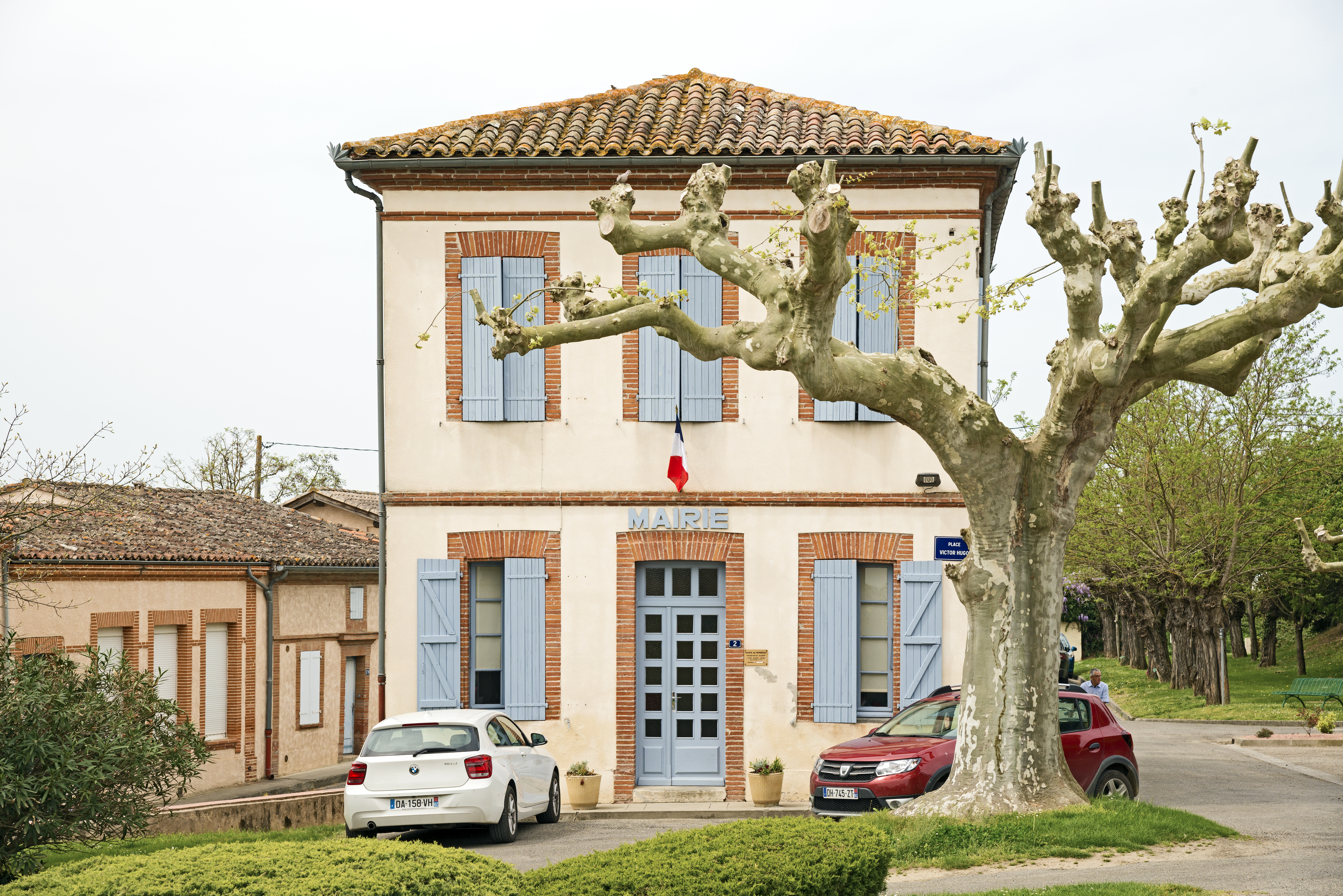 Facade of Town hall Monbéqui, Tarn-et-Garonne, France.